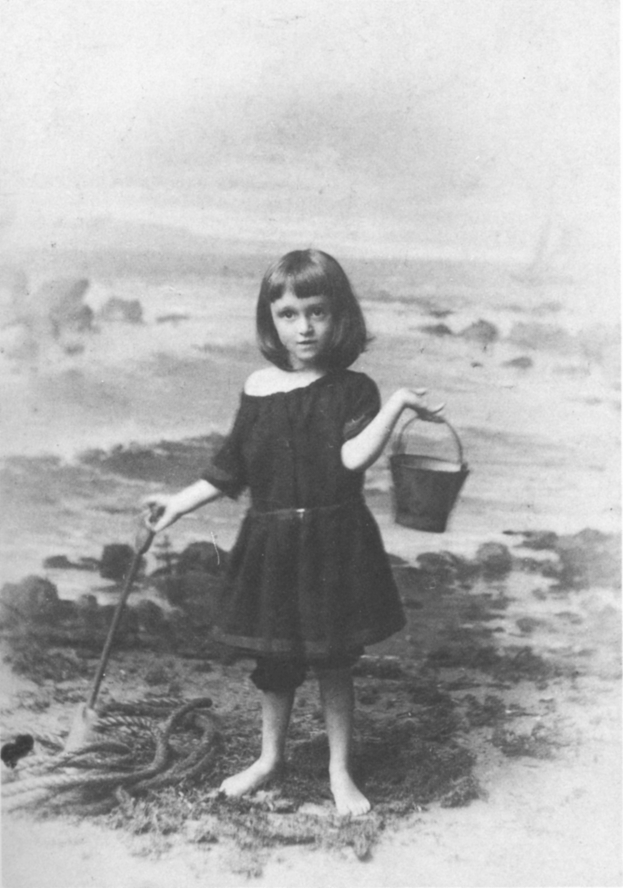 Vita on holiday in Bangor, Wales